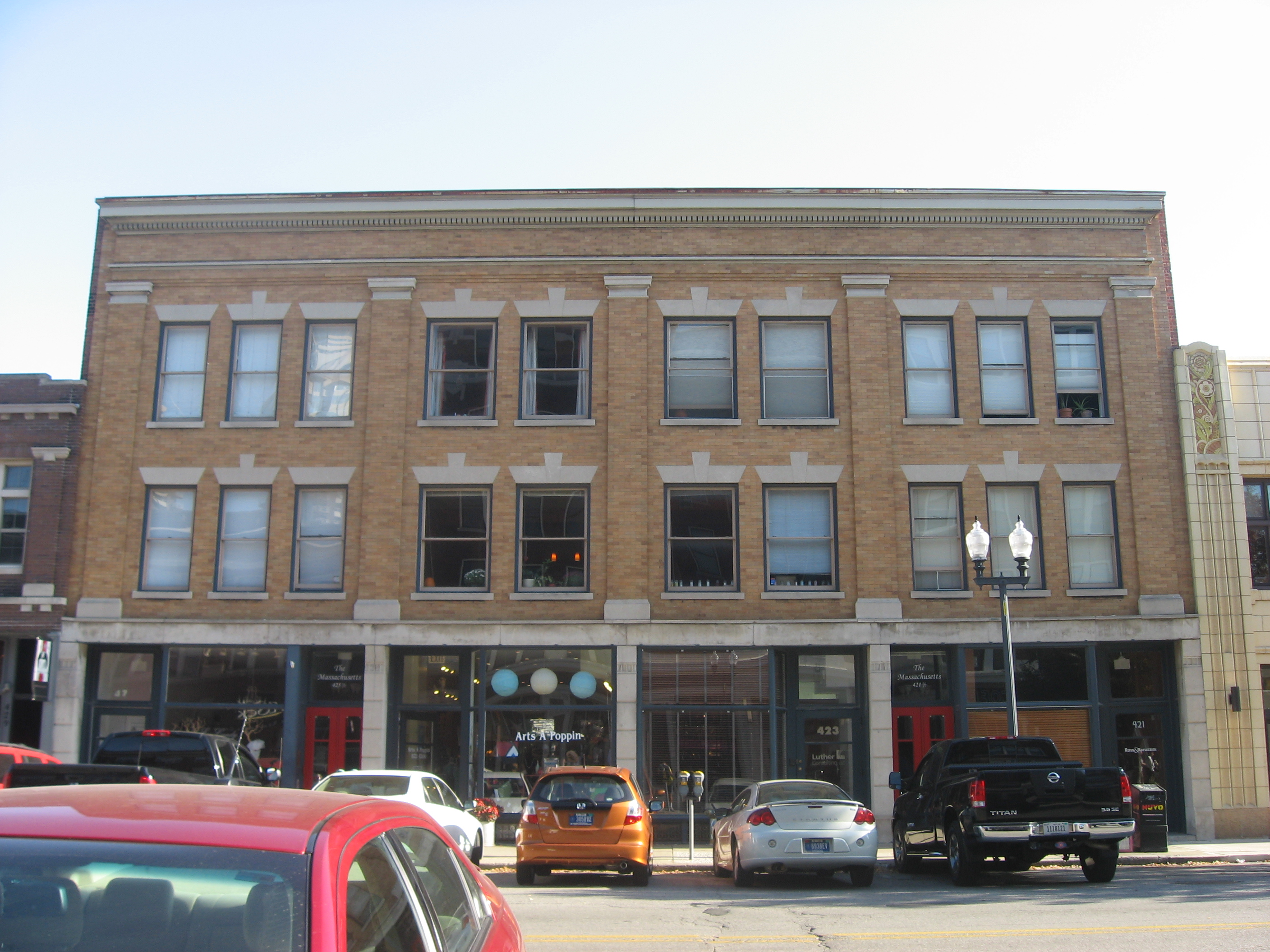 Front of The Massachusetts, located at 421-427 Massachusetts Avenue in Indianapolis, Indiana, United States. Built in 1905, it is listed on the National Register of Historic Places, and it is part of the Massachusetts Avenue Commercial District, a Register-listed historic district.